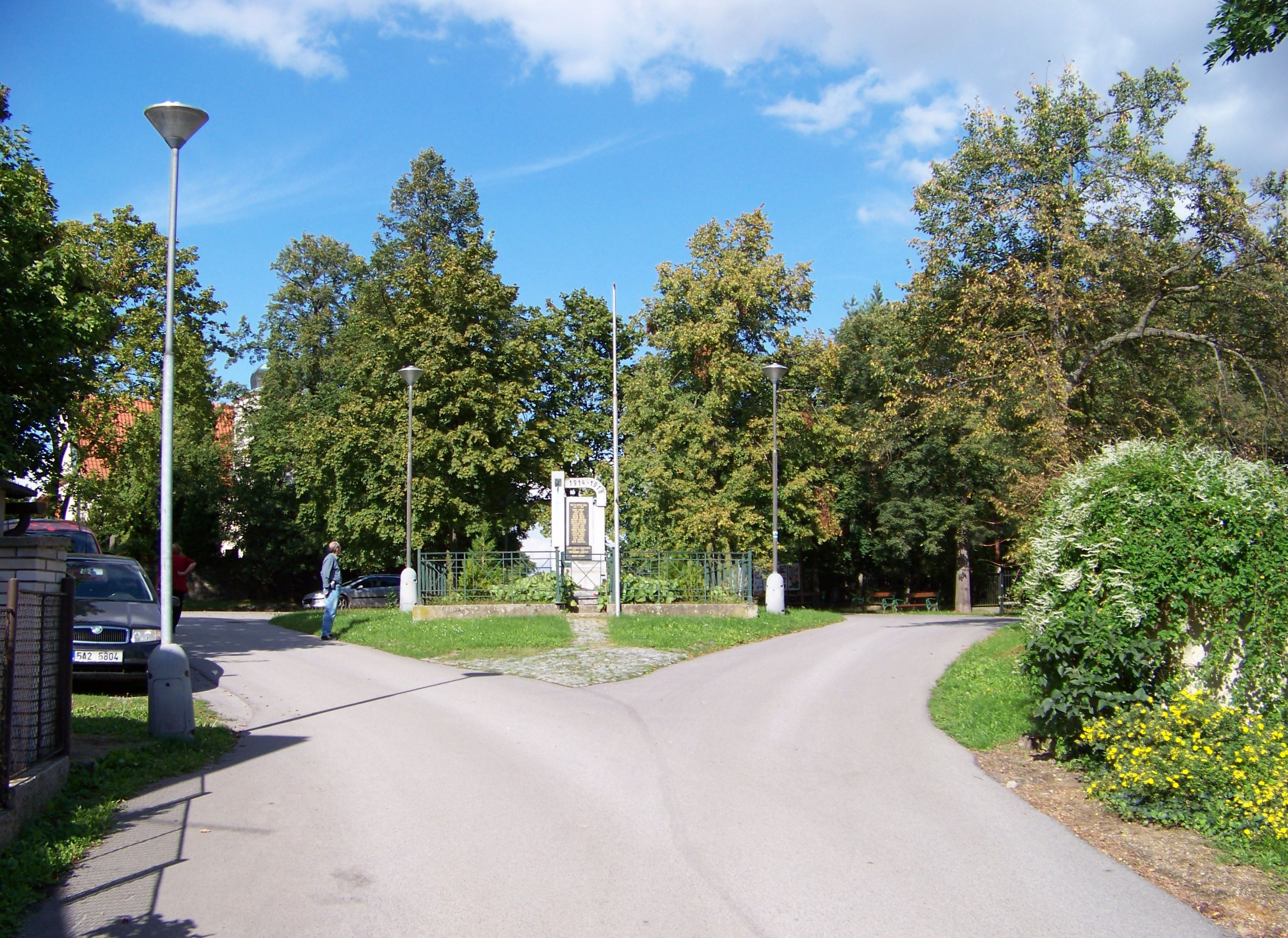 Roztoky-Žalov, Prague-West District, Central Bohemian Region. Levohradecké náměstí.